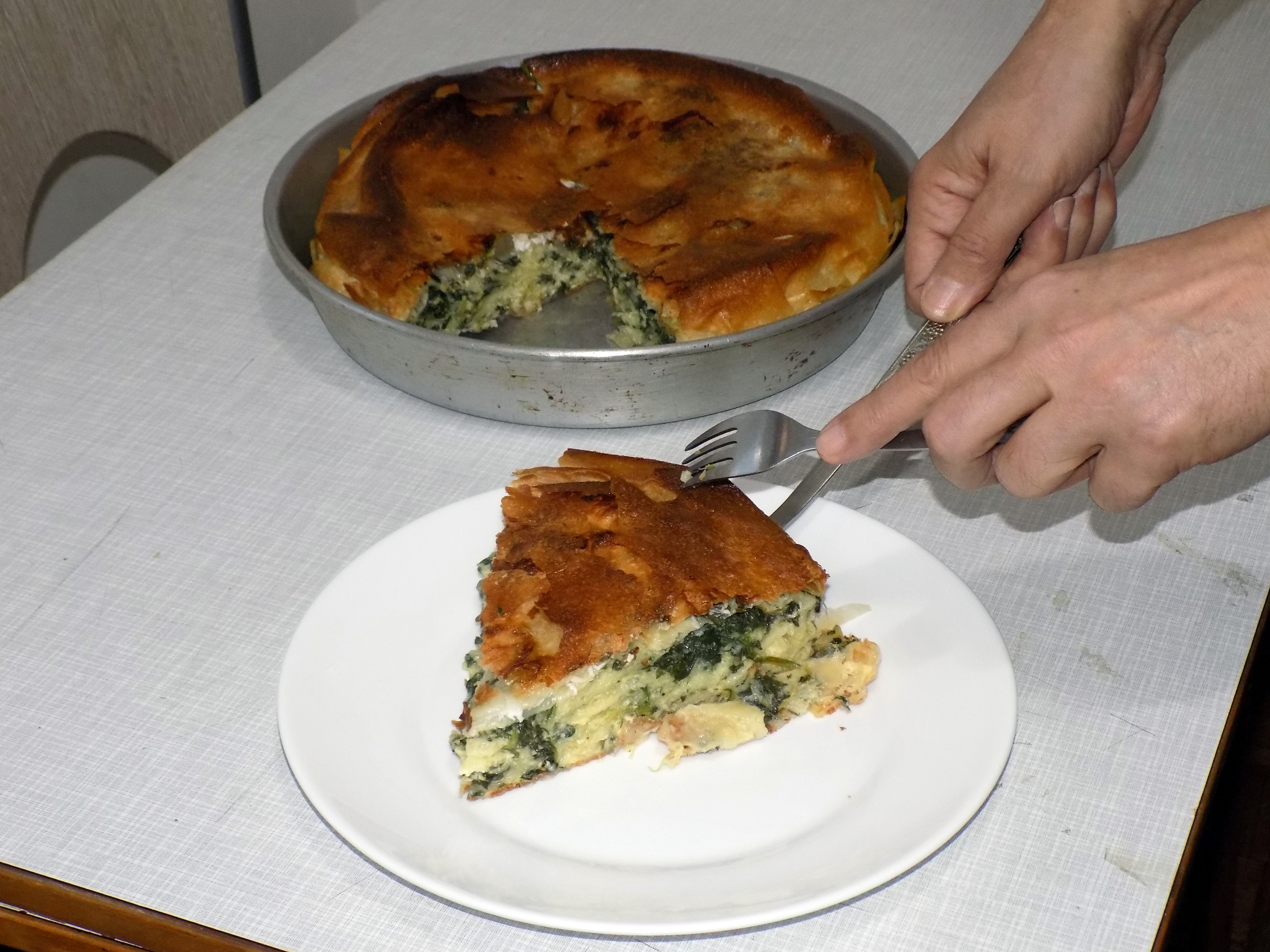 Homemade Serbian pie (burek) with spinach and cheese